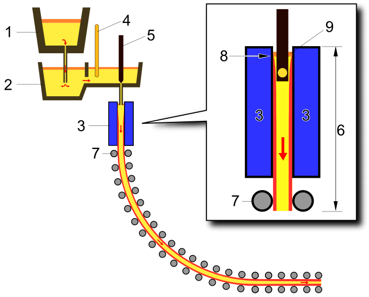 Continuous casting (Tundish and Mold) #1 1.Ladle 2.Tundish 3.Mold 4.Plazma torch 5.Stopper 6.Straight part minimum 2meter 7.Rolls 8.Meniscus 9.Molding powder